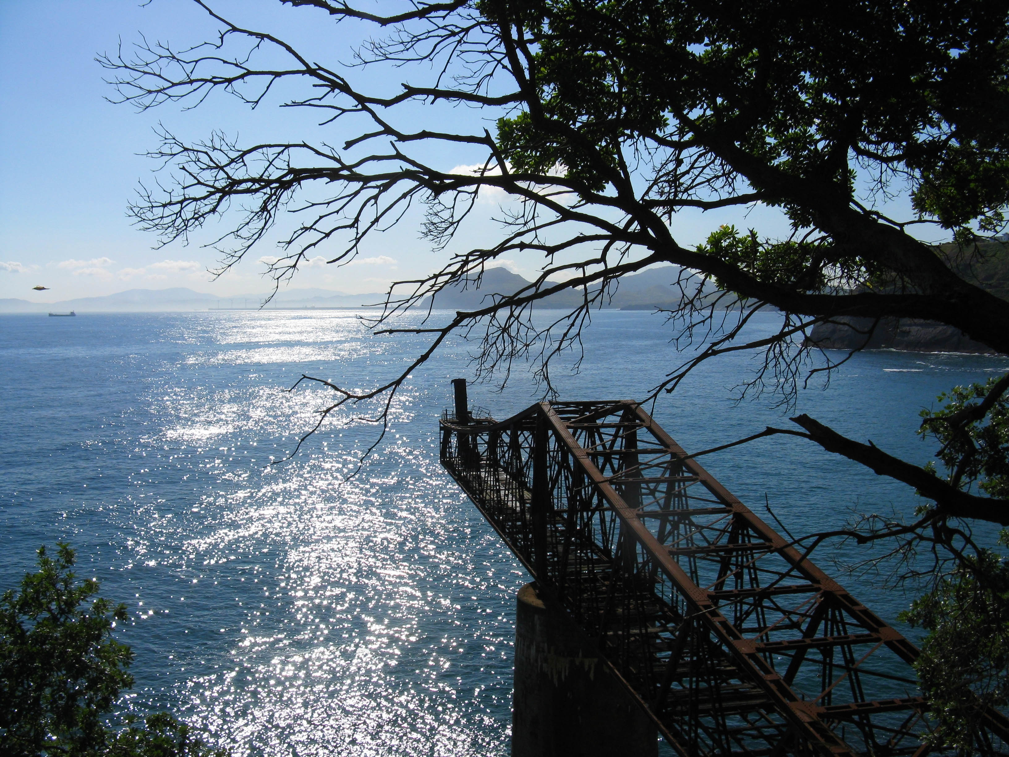 Old loading bay of Mioño (Cantabria, Spain).